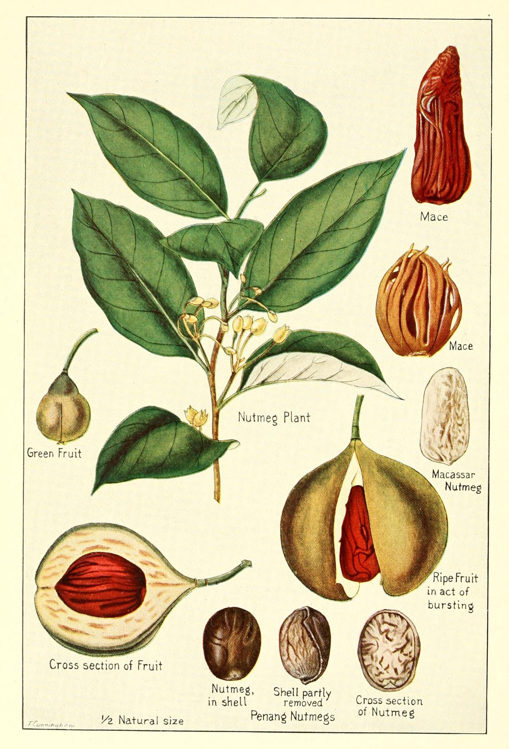 Shows nutmeg and mace plant, fruits, and their cross sections.